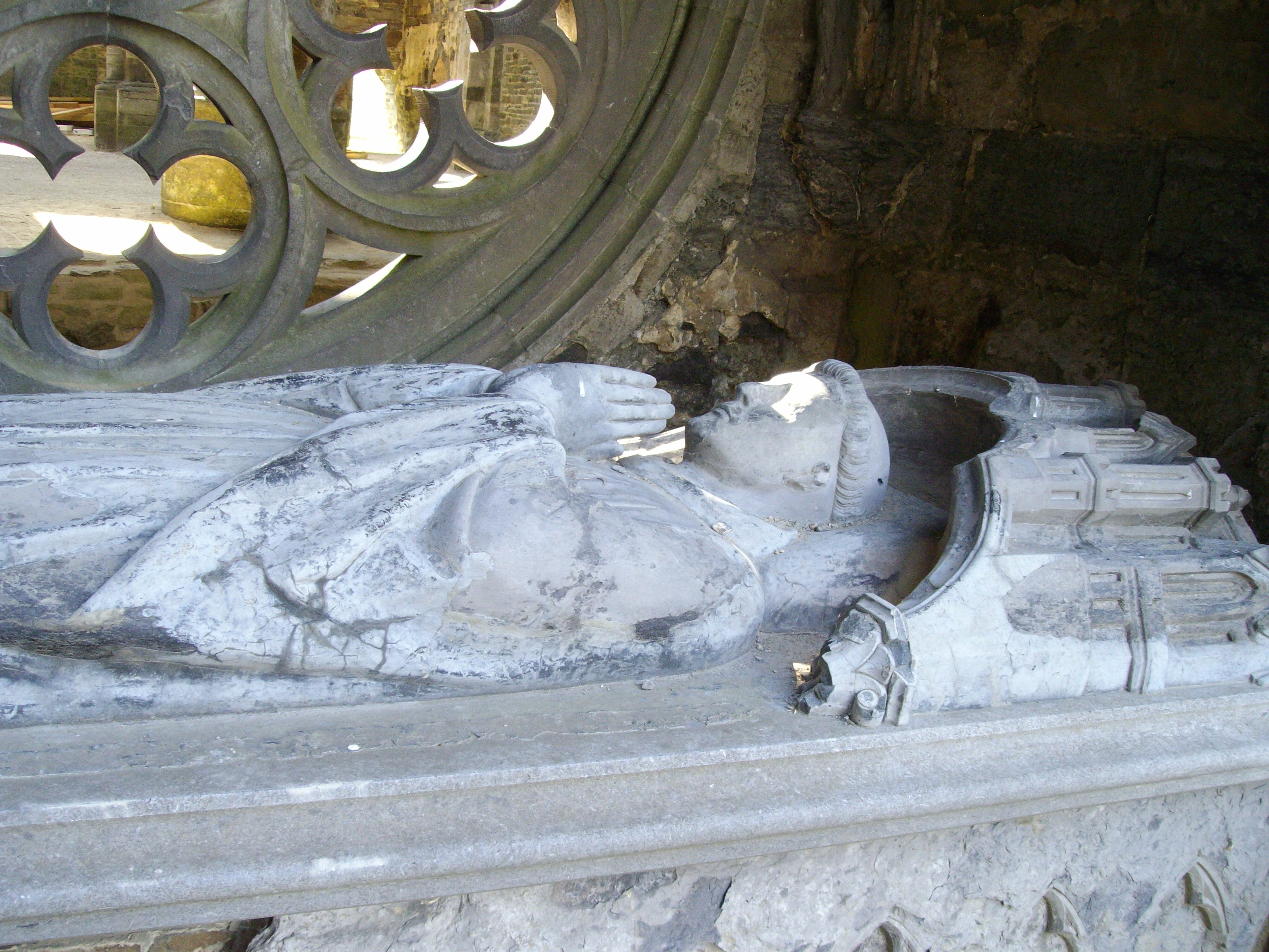 Villers Abbey, Villers-la-Ville, Walloon Brabant, Belgium